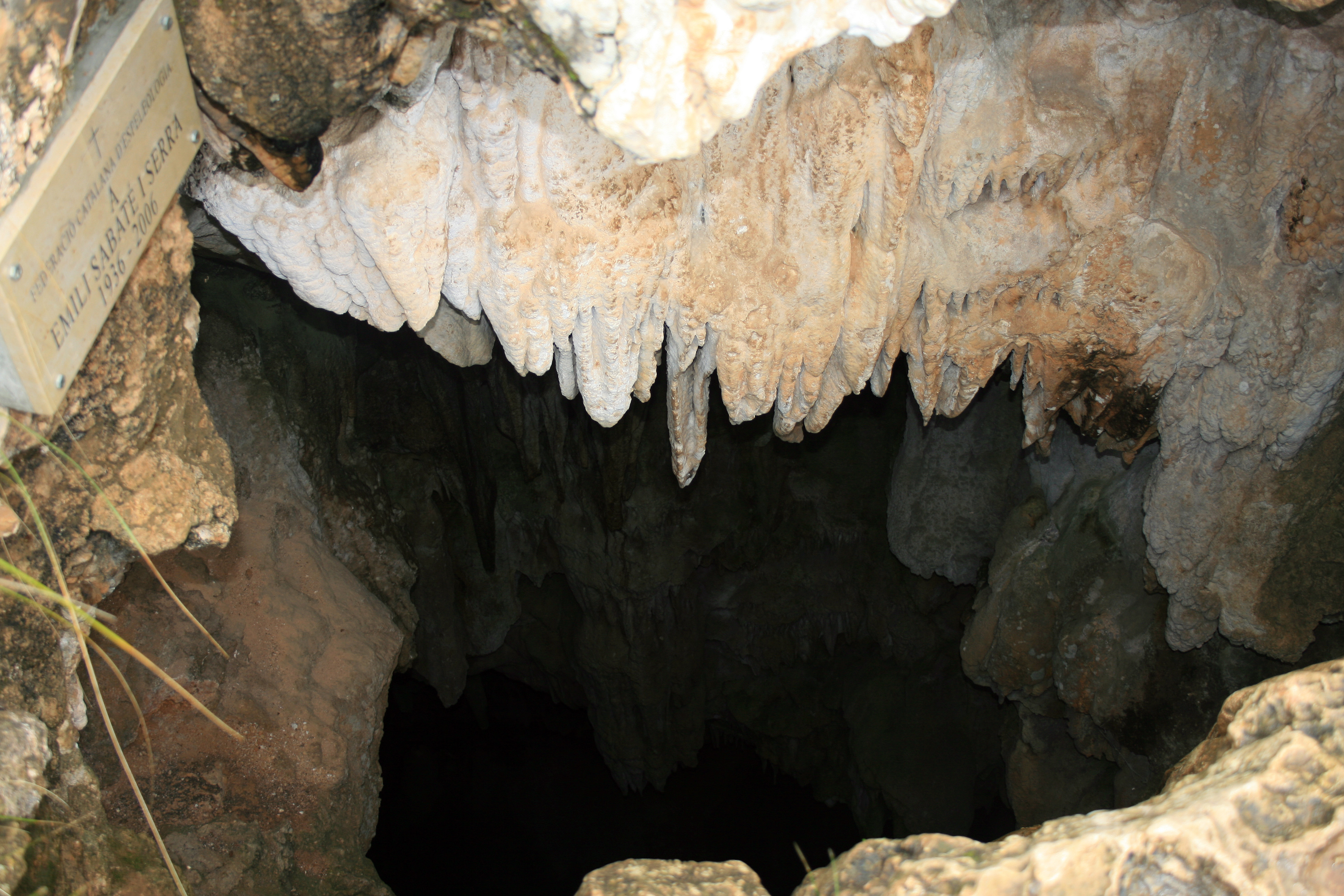 "Emili Sabaté" pothole, at "Parc Natural del Garraf", Catalonia.